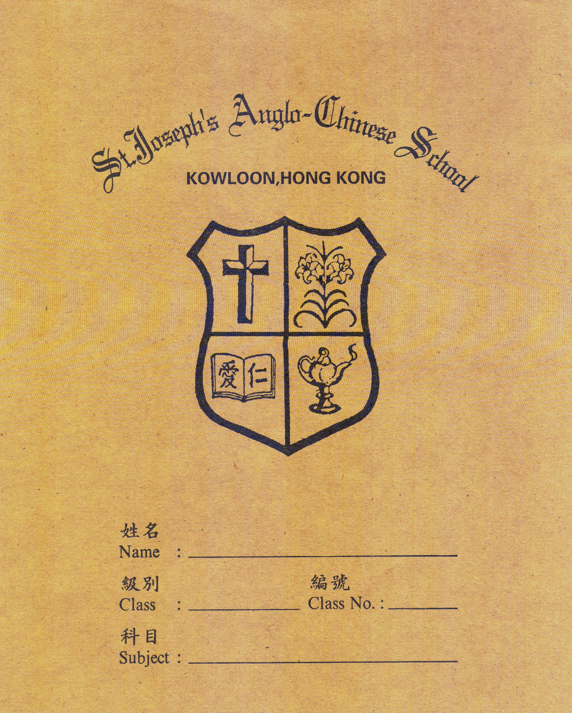 This image is the homework book of SJACS, Hong Kong which I use the camera to take the photo.